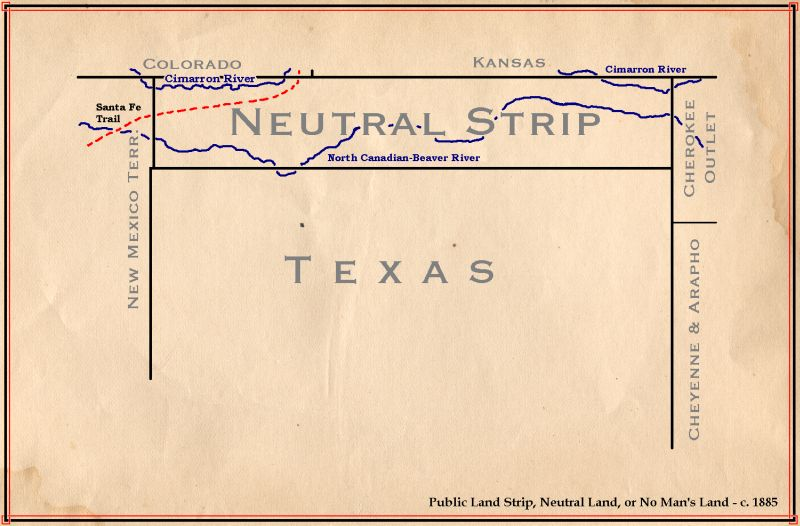 Map of No Man's Land (Oklahoma) - circa 1885